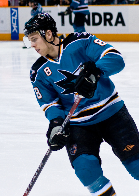 Joe Pavelksi